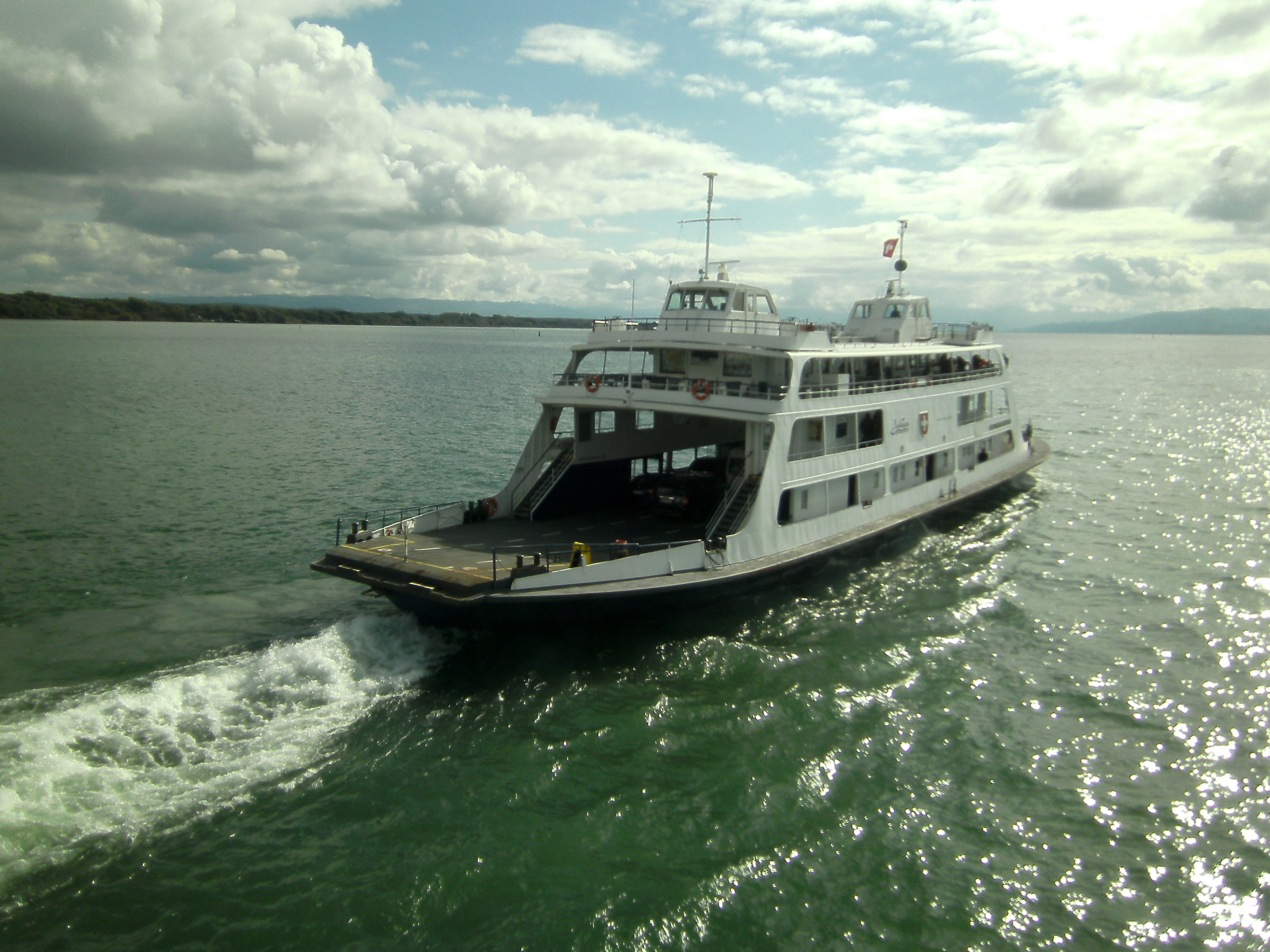 Romanshorn (Schiff)